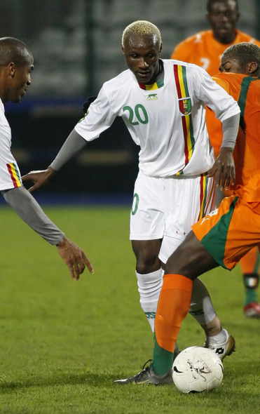 Guinean player Ibrahima Yattara during match Guinea vs. Côte d'Ivoire at Stade Robert Diochon, Rouen, France.